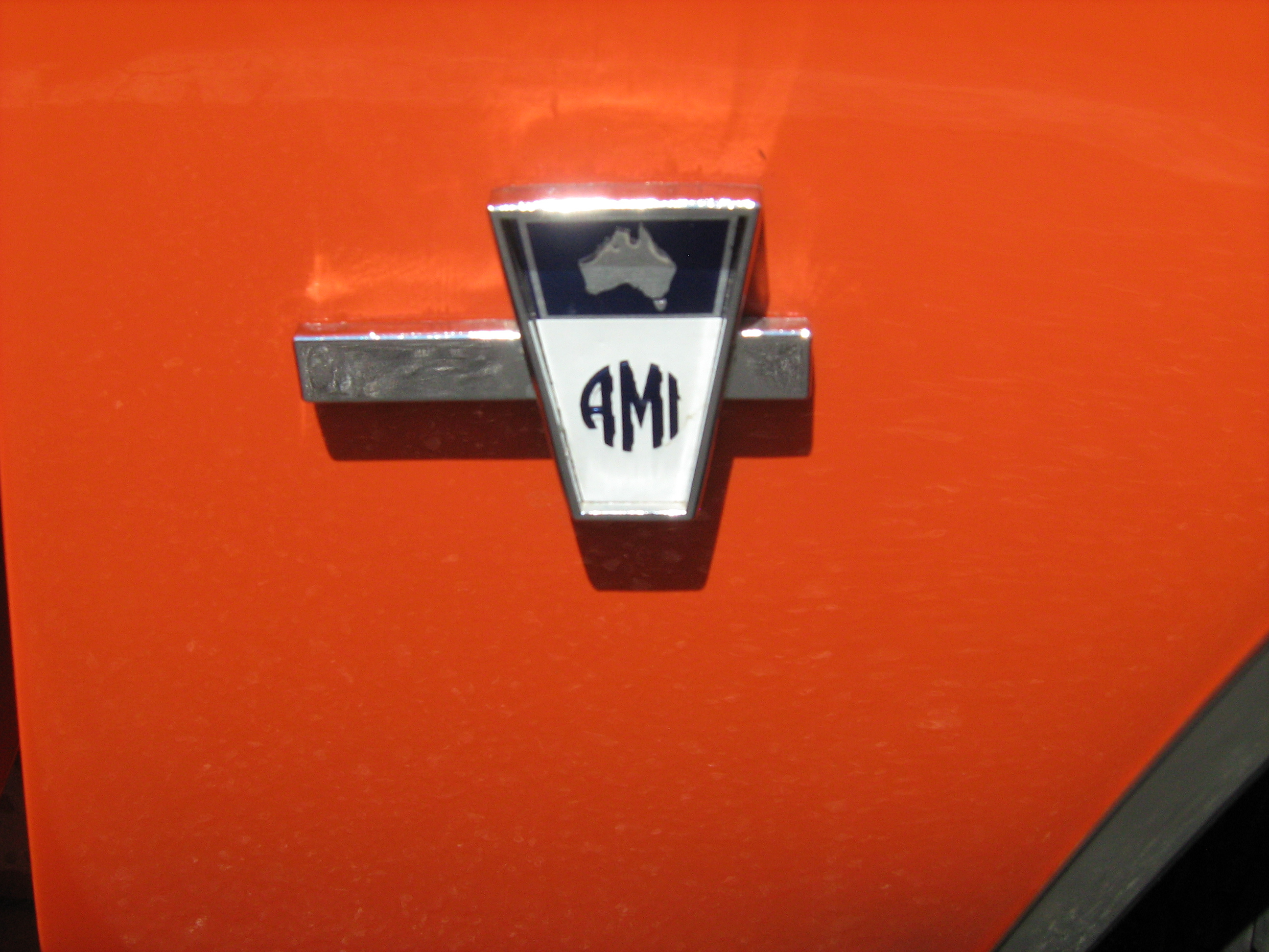 1971 AMI Rambler Gremlin assembled in Australia by Australian Motor Industries (AMI). The automobile is from a complete knock down (CKD) kit from American Motors Corporation (AMC).